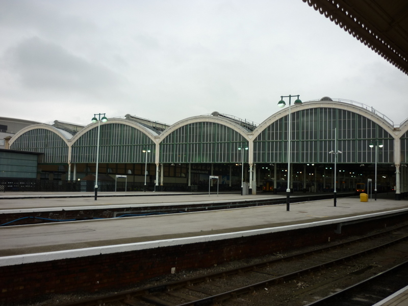 Hull train station form platform 2